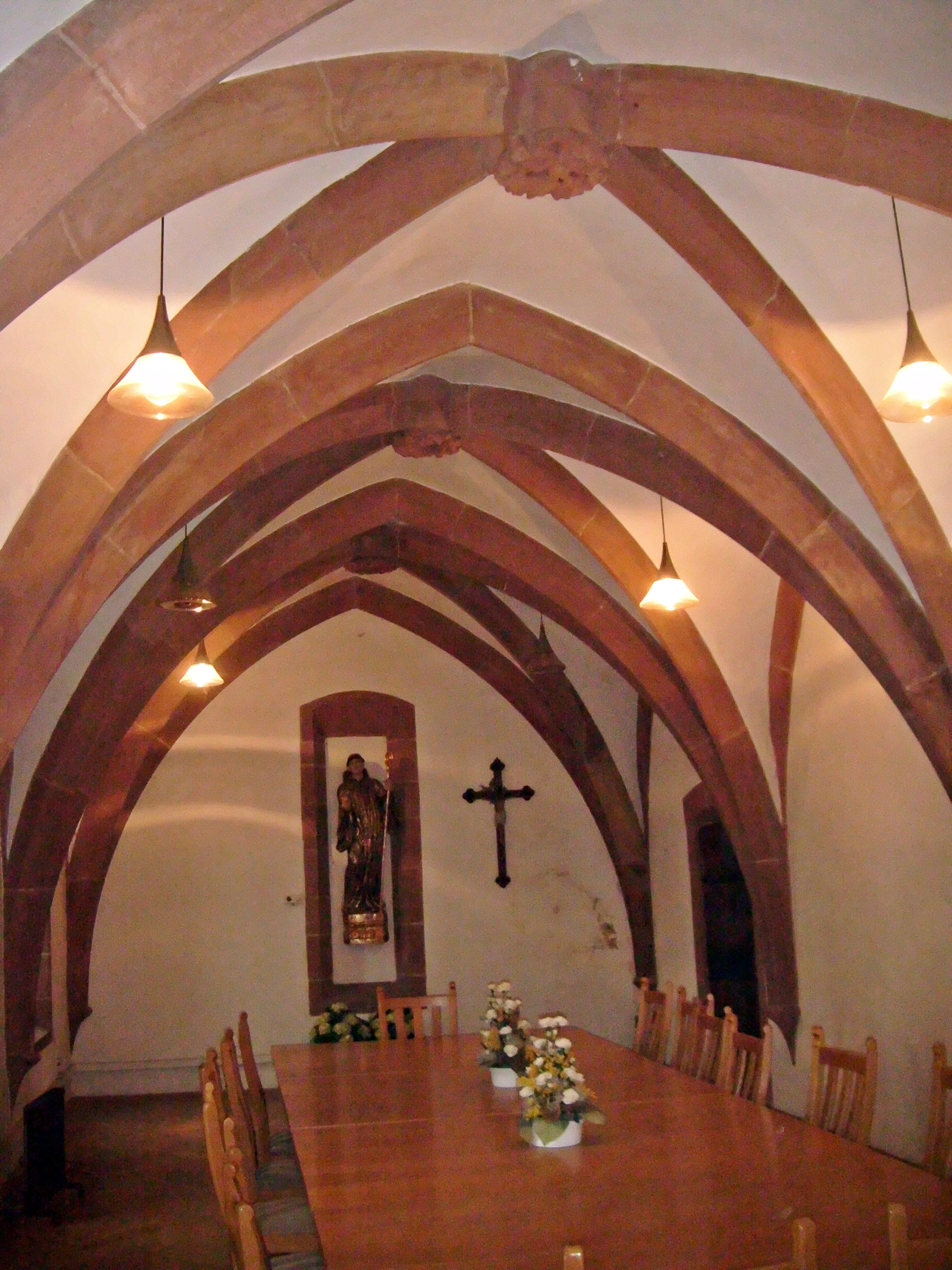 Stiftskirche Neustadt, Kapitelssaal